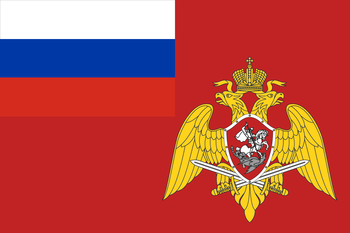 Flag of National Guard of Russia, Russia